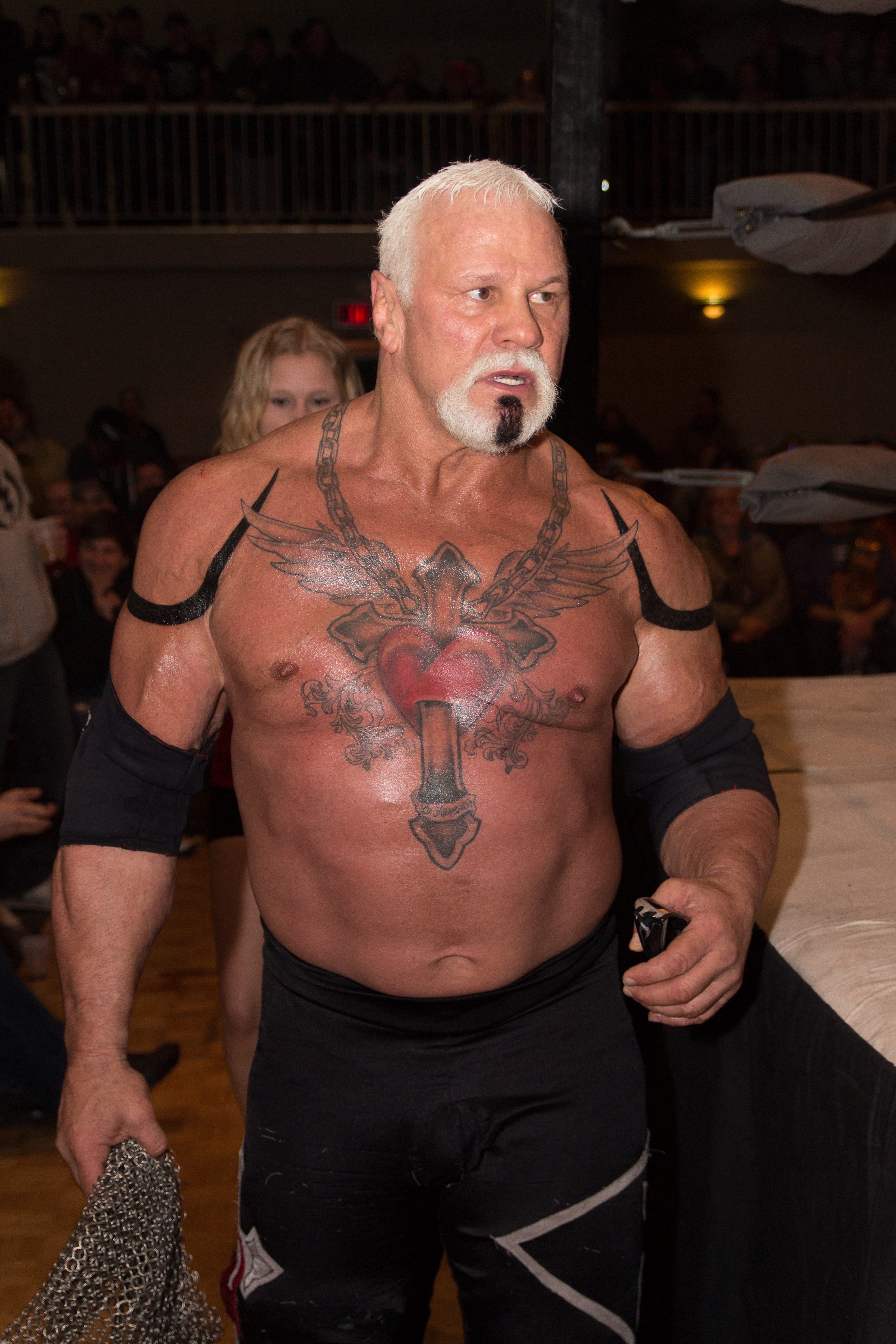 Scott Steiner making his entrance at the Hardcore Roadtrip's Born 2B Wired show in London, ON